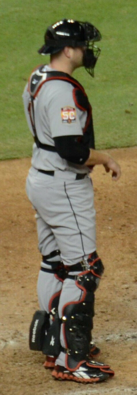 Chris Snyder